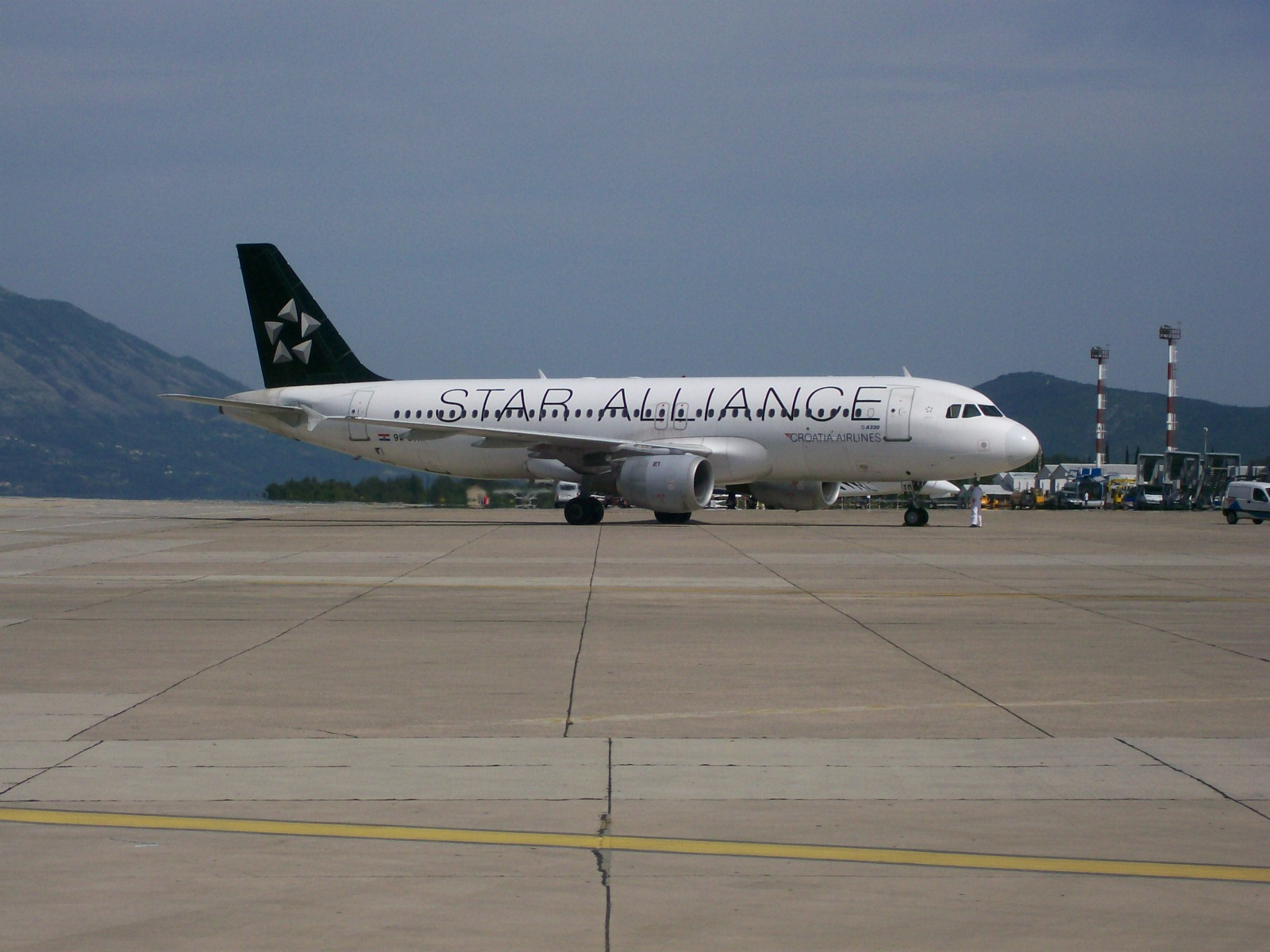 Airbus A320 Croatia Airlines/Star Alliance in Dubrovnik